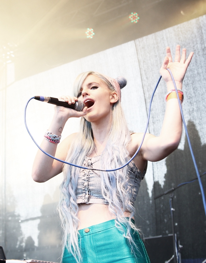 Adi Ulmansky in United Islands Festival Prague, June 2013